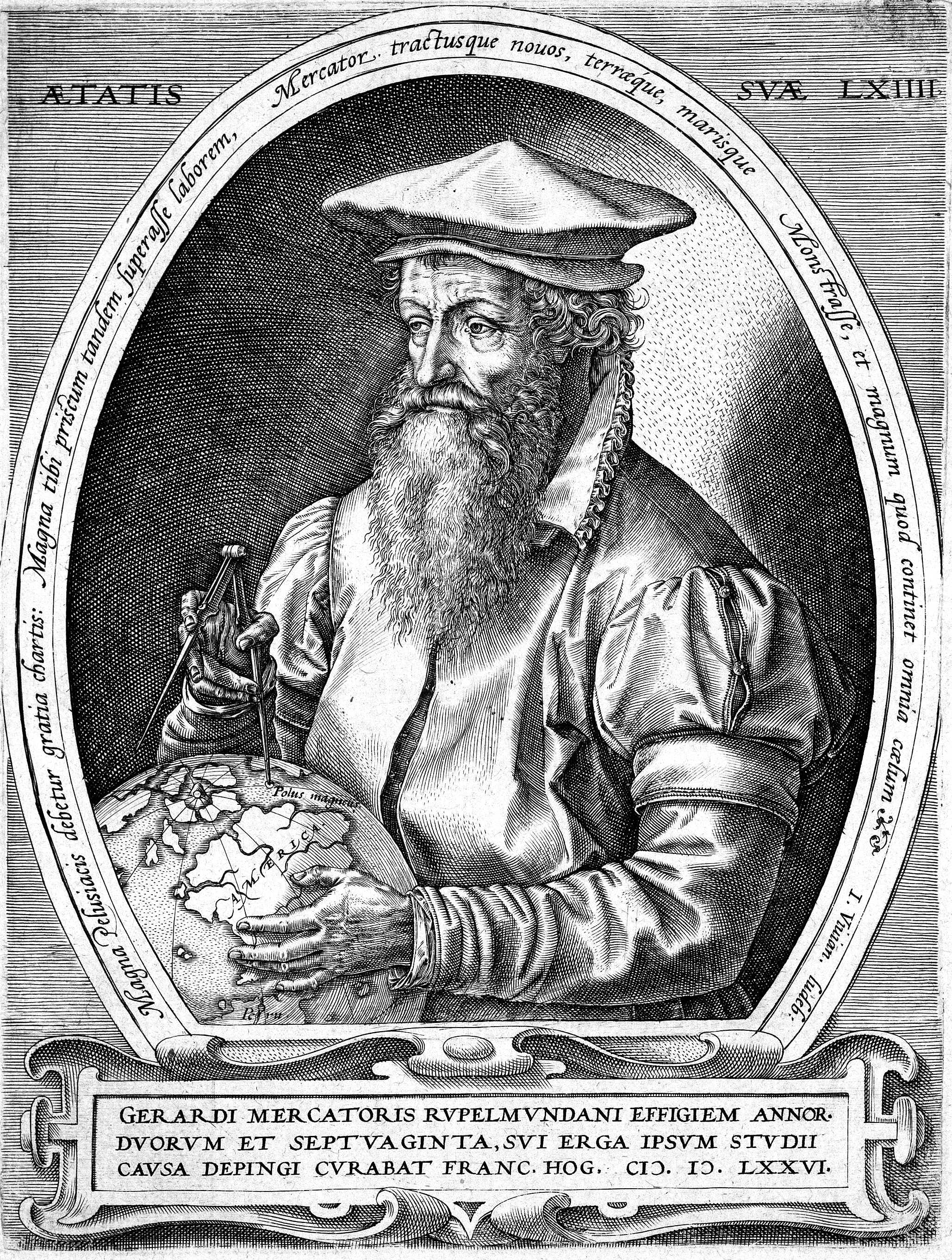 Gerardus Mercator, original caption: "I. Portrait of Mercator at the age of 62, engraved by Frans Hogenberg, 1574"